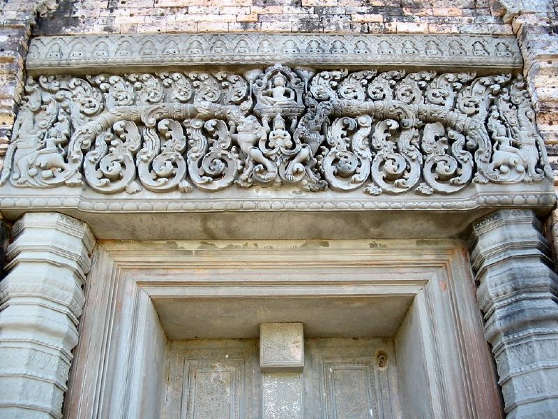 East Mebon Temple, Angkor, Cambodia (2)